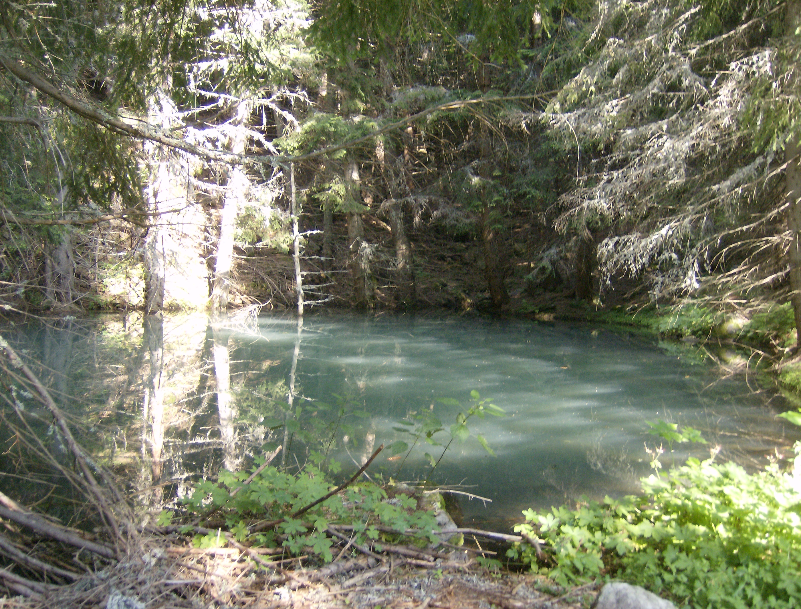 Smolyan Lakes